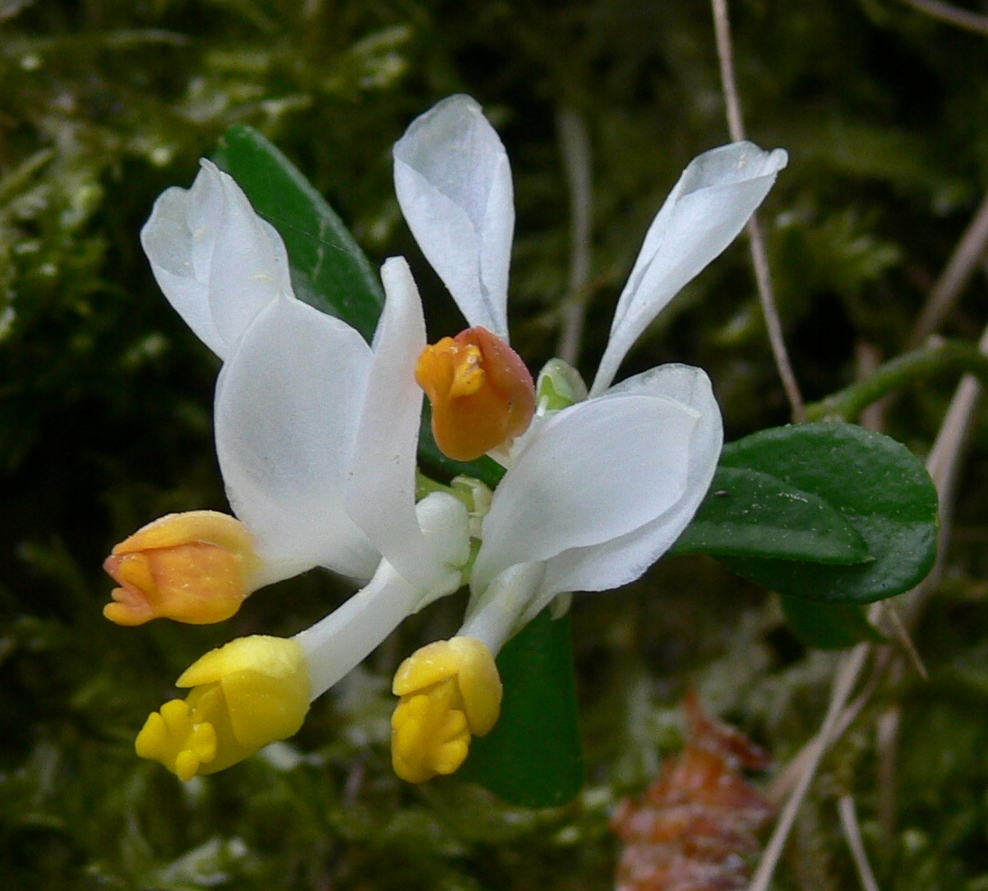 shrubby milkwort